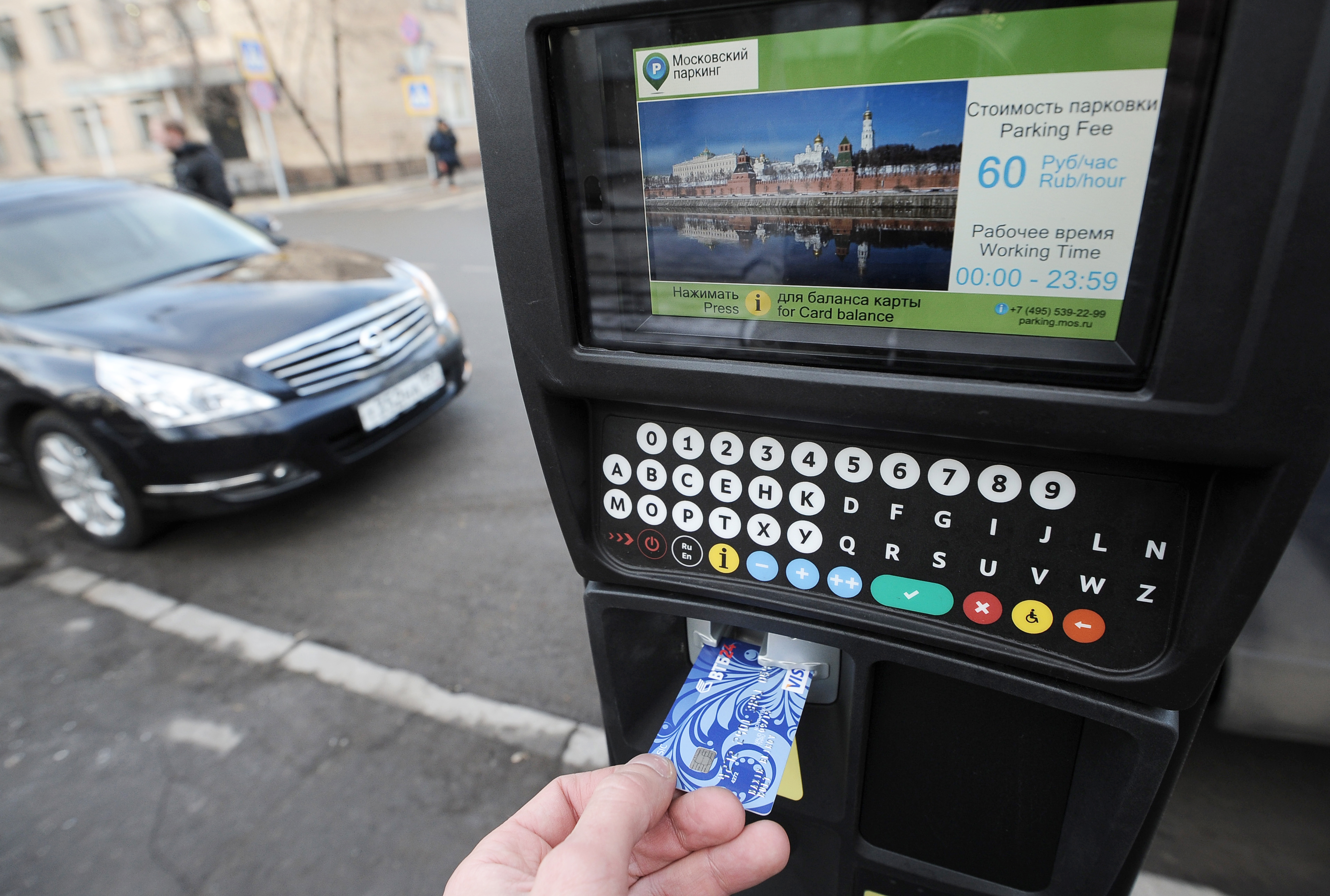 Водитель производит оплату парковки в паркомате.